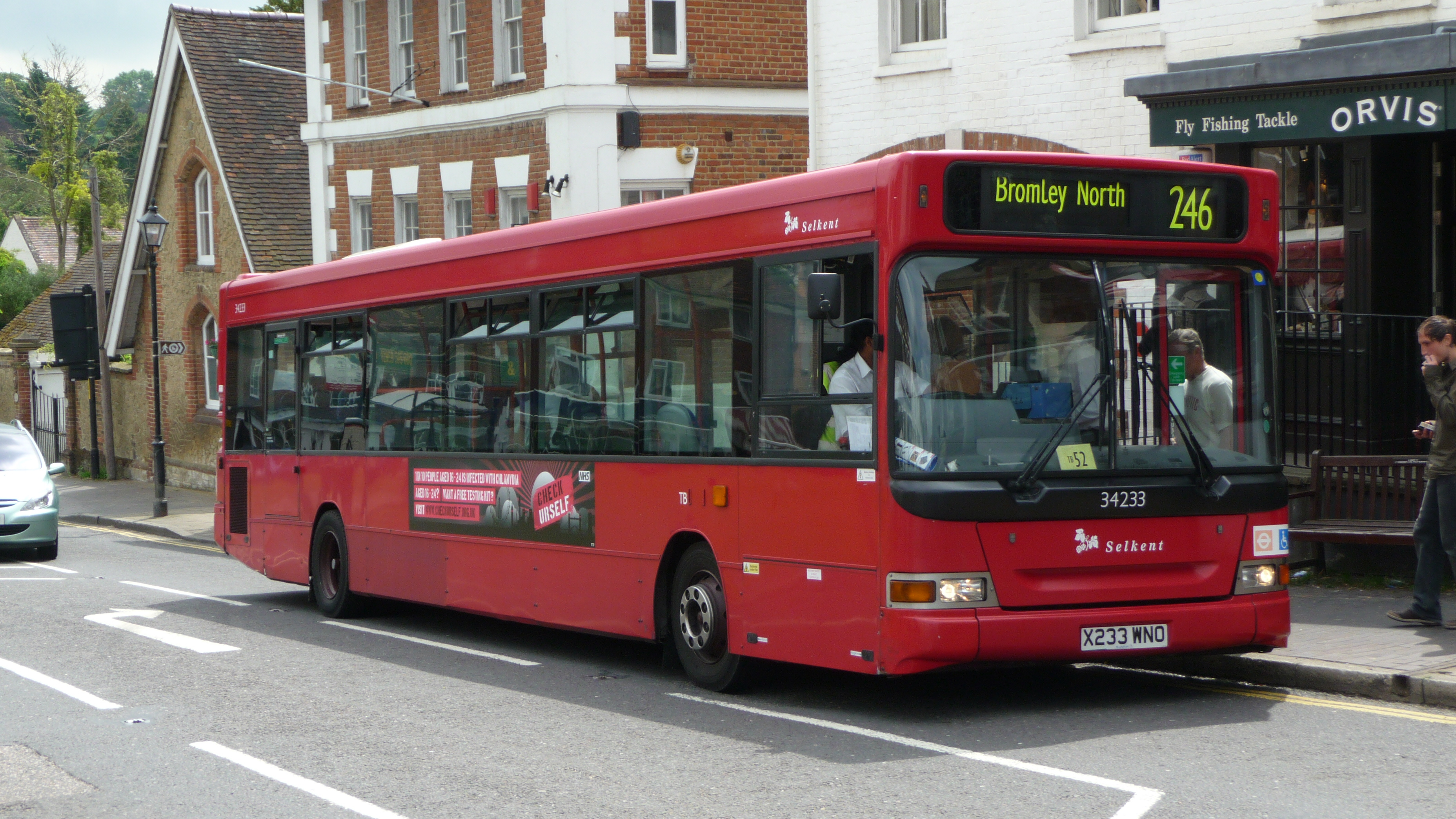 Selkent 34233 (X233 WNO), a Dennis Dart SLF/Plaxton Pointer 2, on Vicarage Hill, Westerham, Kent, on Transport for London contracted route 246, which extends quite a way from the London boundary. This route is allocated Enviro200 Darts, so this Dennis Dart was a slight odd working.